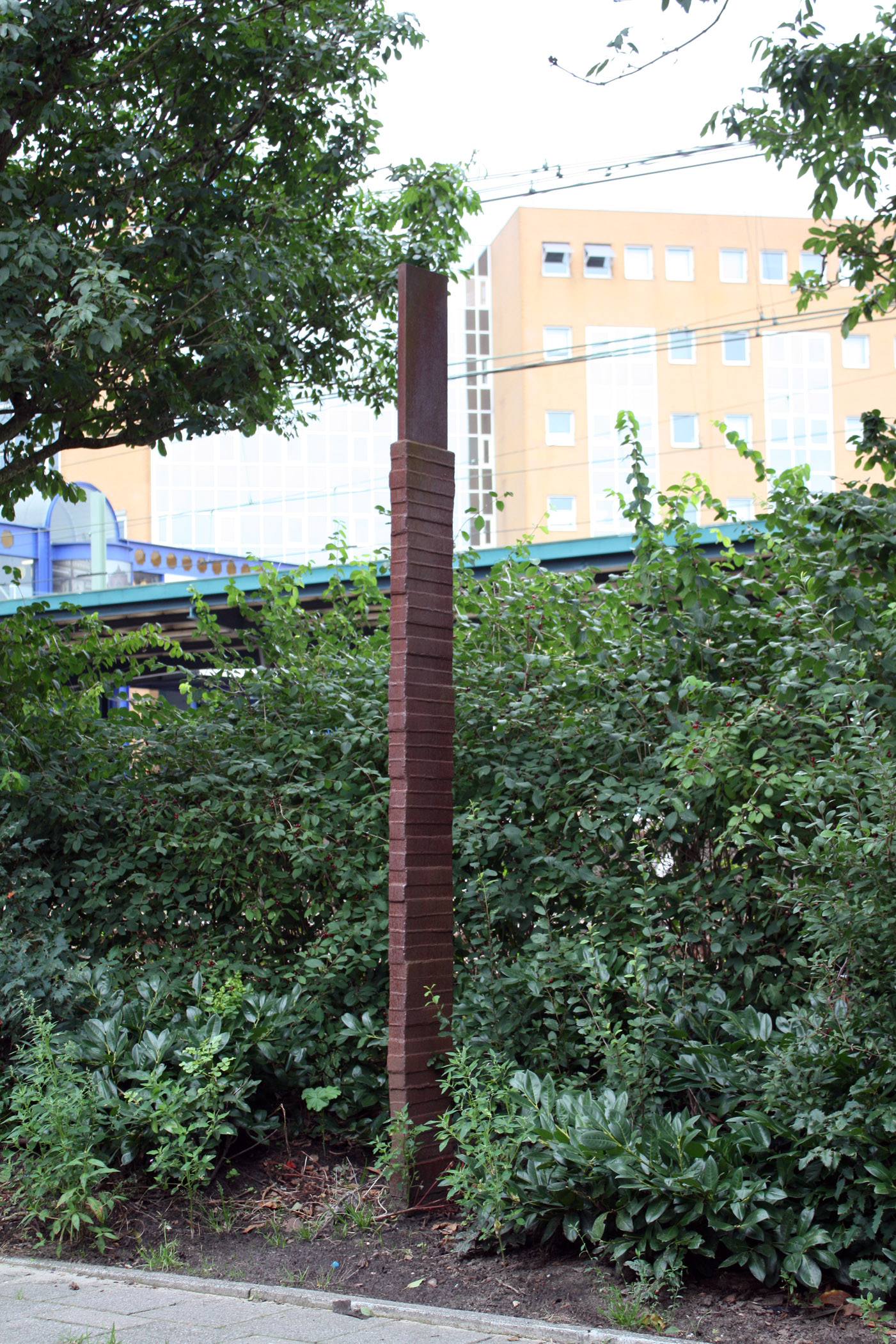 Unnamed sculpture by Jan Tengbergen in Groningen, the Netherlands